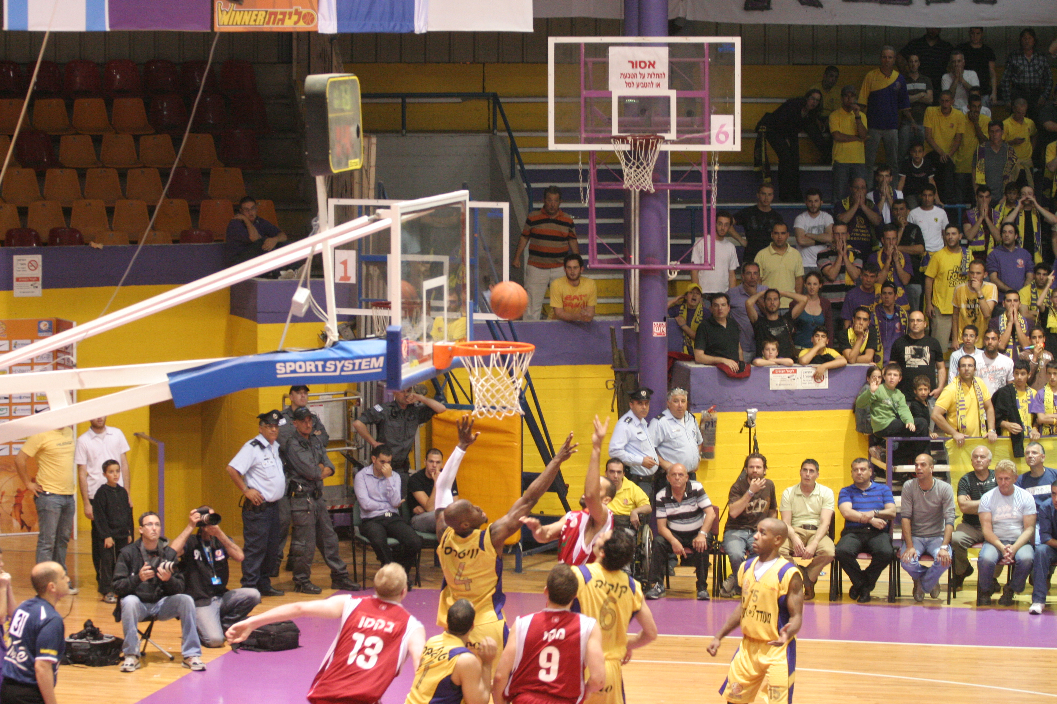 Hapoel Holon Basketball play at home "Hapachim Arena"